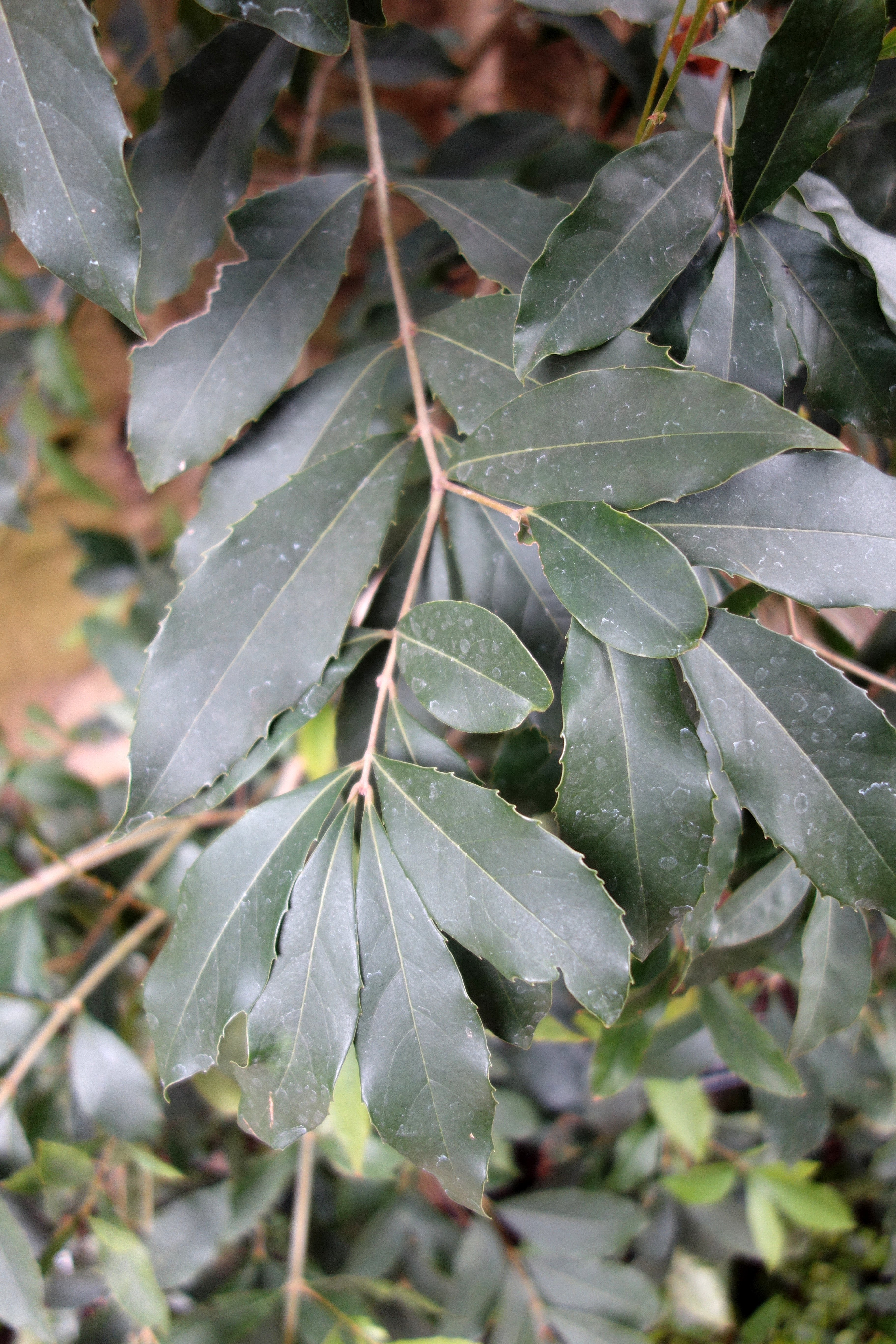 Botanical specimen in the Brooklyn Botanic Garden, Brooklyn, New York, USA.